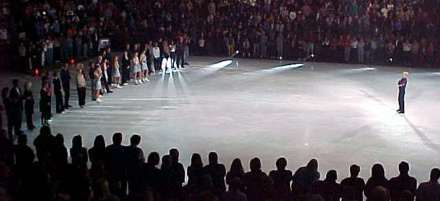 Scott Hamilton stands with other skaters from the tour's history on the ice during his last Stars on Ice performance on April 4, en:2002 in Portland, Maine.